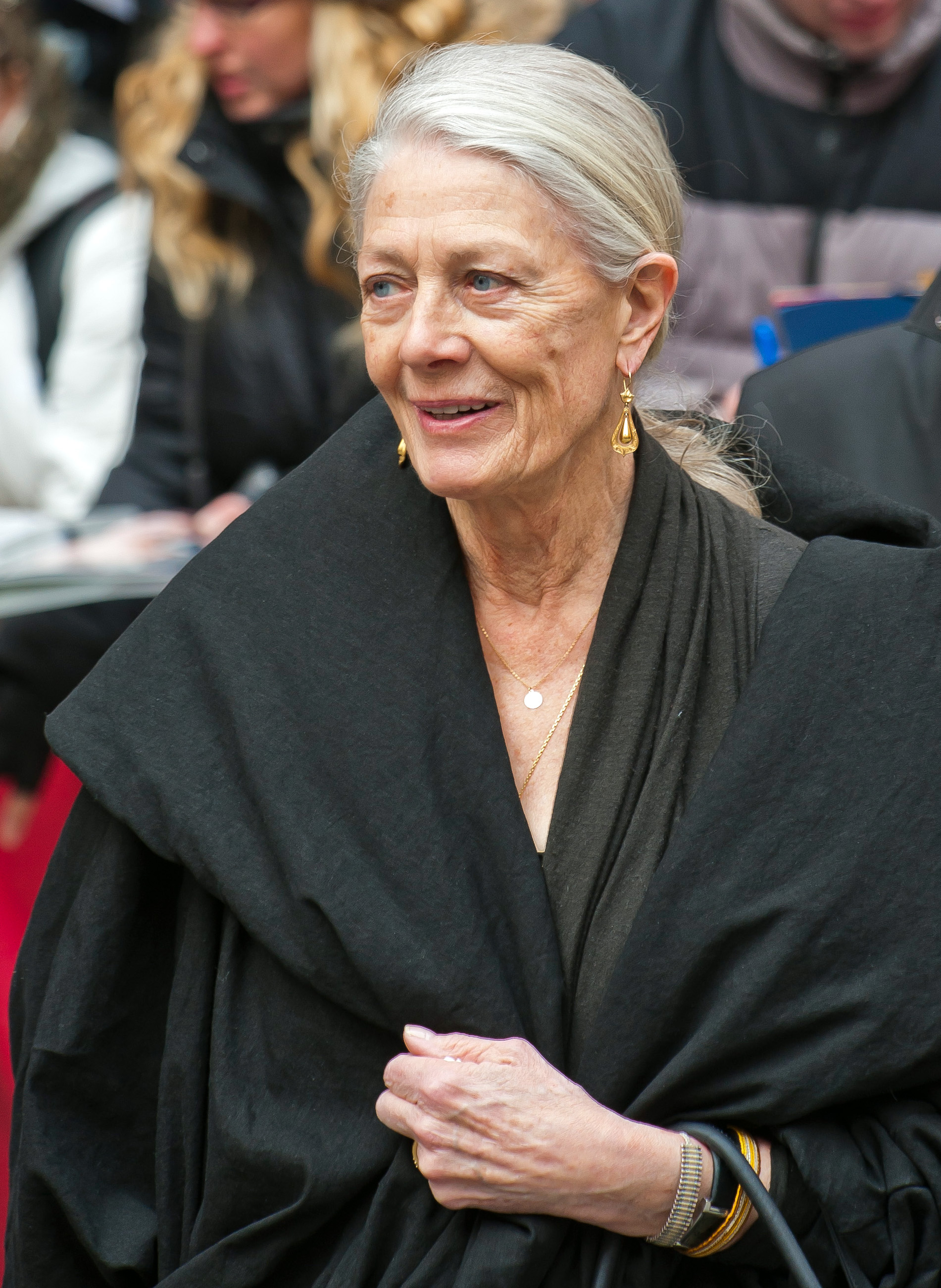 English actress Vanessa Redgrave at the press conference for the film Coriolanus.